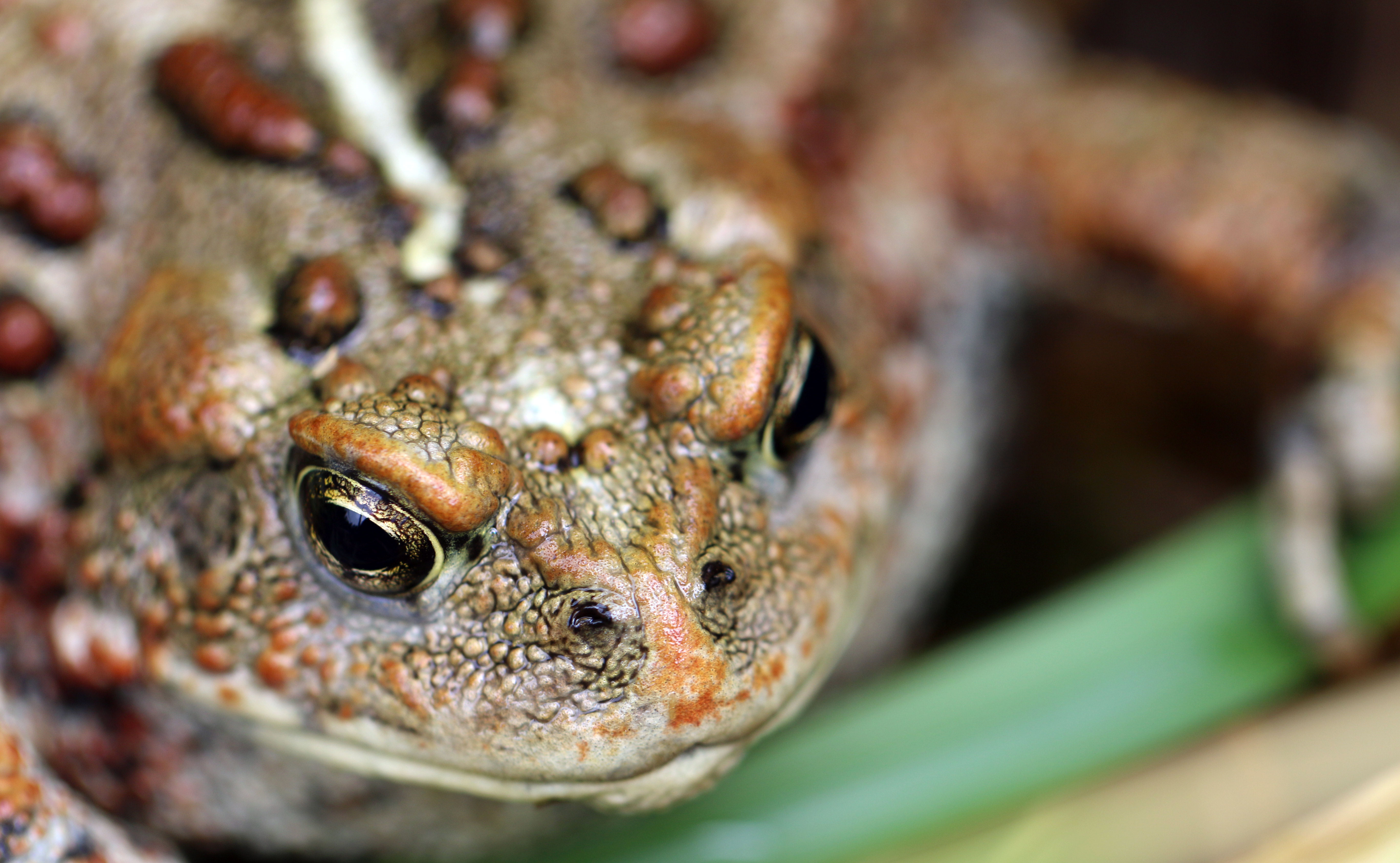 Western Toad (Anaxyrus boreas) You are free to use this image with the following photo credit: Peter Pearsall/U.S. Fish and Wildlife Service